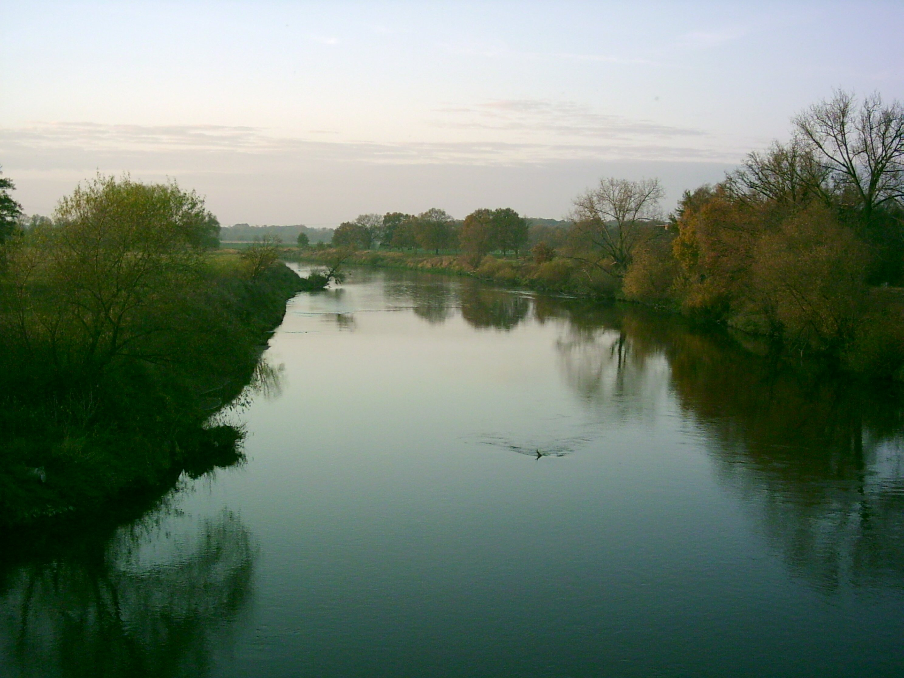 Der Fluss Mulde bei Bad Düben